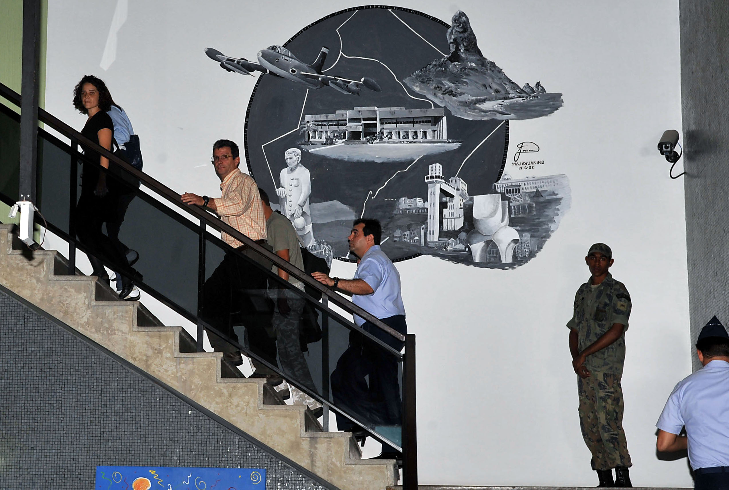 Relatives of Air France Flight 447 passengers visit Cindacta 3, the coordination centre for search efforts for bodies and wreckage of the downed Airbus A330.